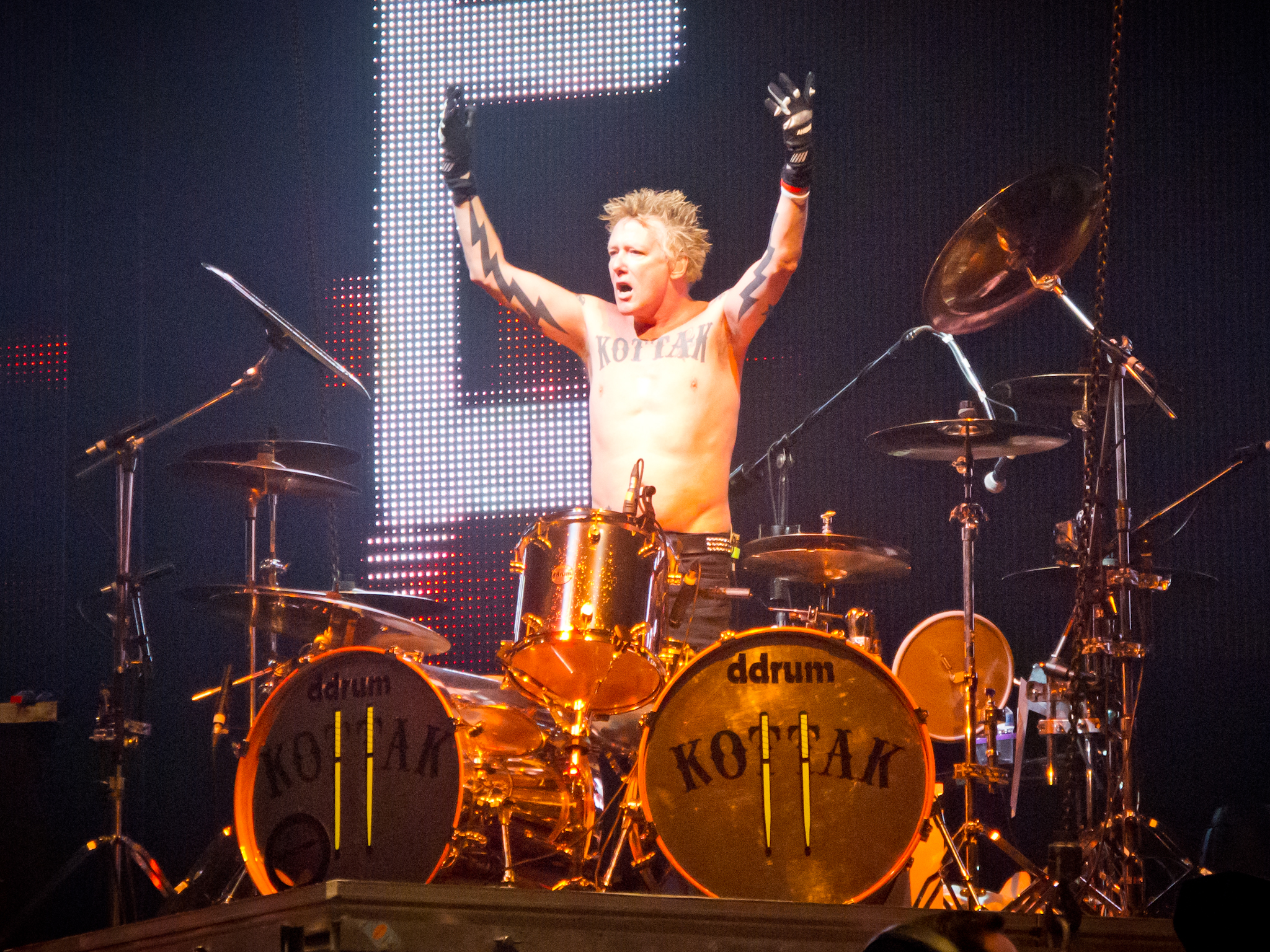 James Kottak, drummer of German rock band Scorpions, in Madrid in 2014.